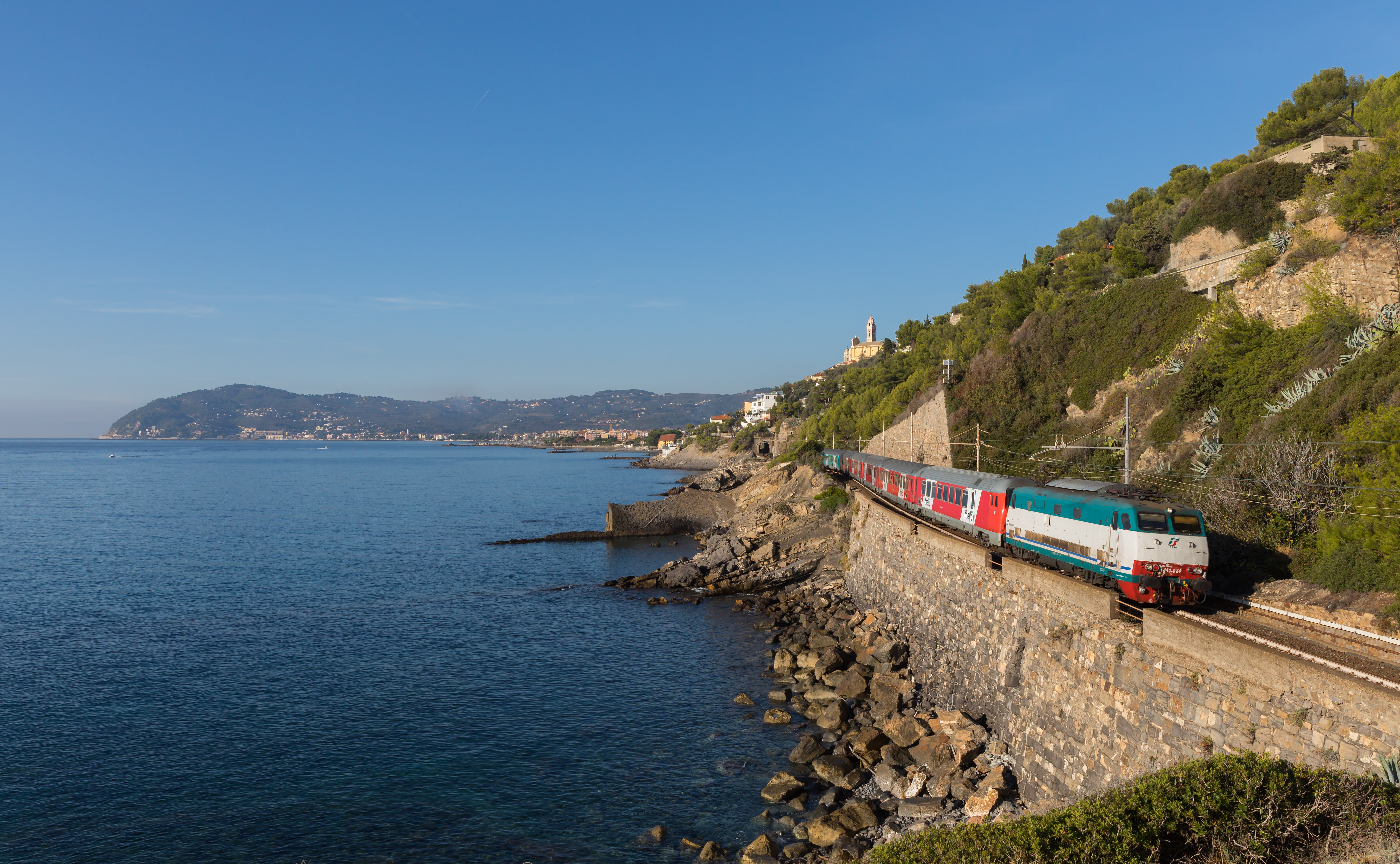 E 444 084 hauls a Thello Eurocity along the Ligurian Coast. This section of the line was shut down four days later. Taken between Cervo and Andora, Italy.